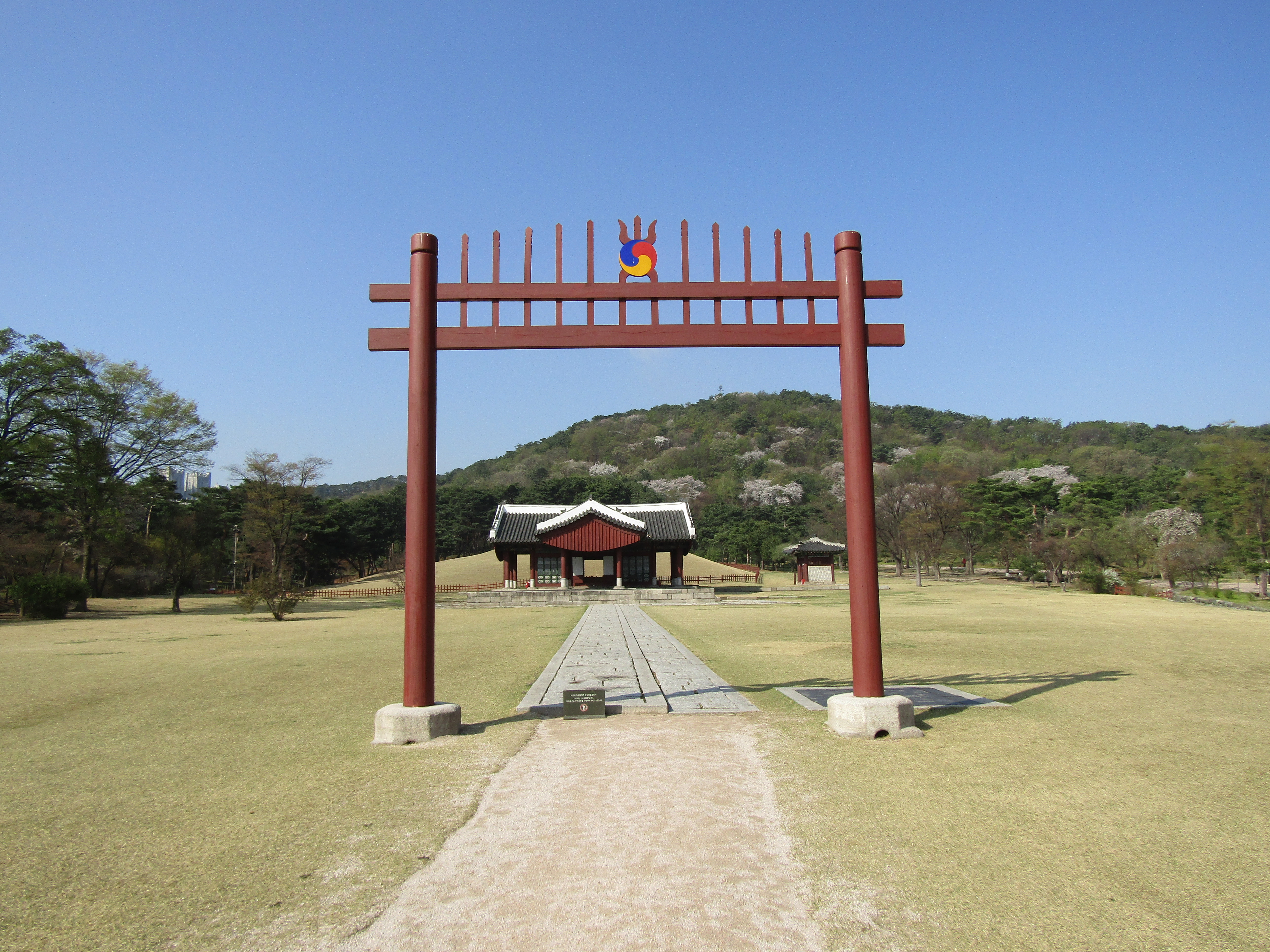 The outlook of royal tombs of Gyeongjong of Joseon, Uireung.